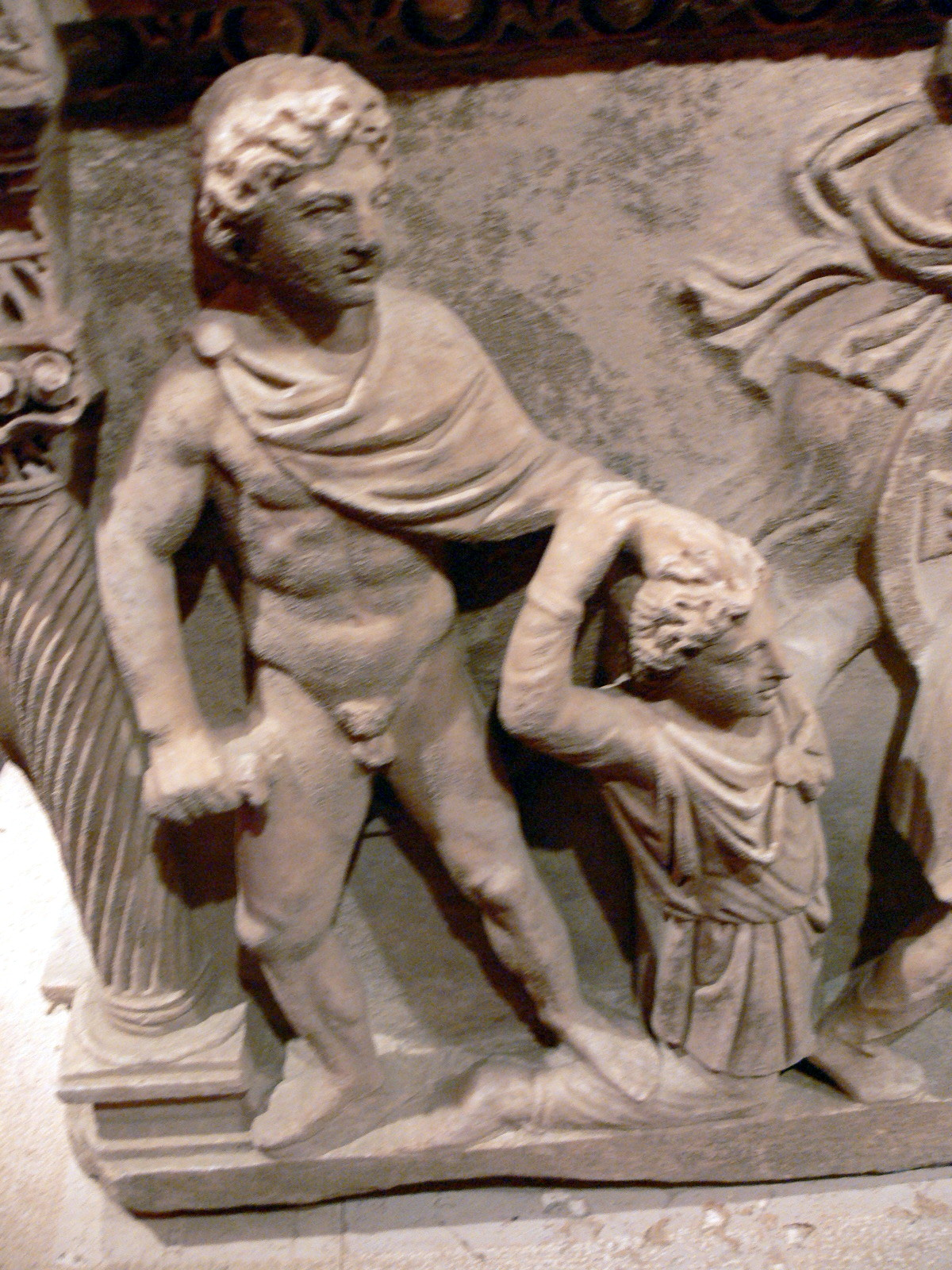 Antalya Archaeological Museum. Ancient Roman sarcophagus of Aurelia Botania Demetria ( 2nd century AD ): Achilles striking Thersites.